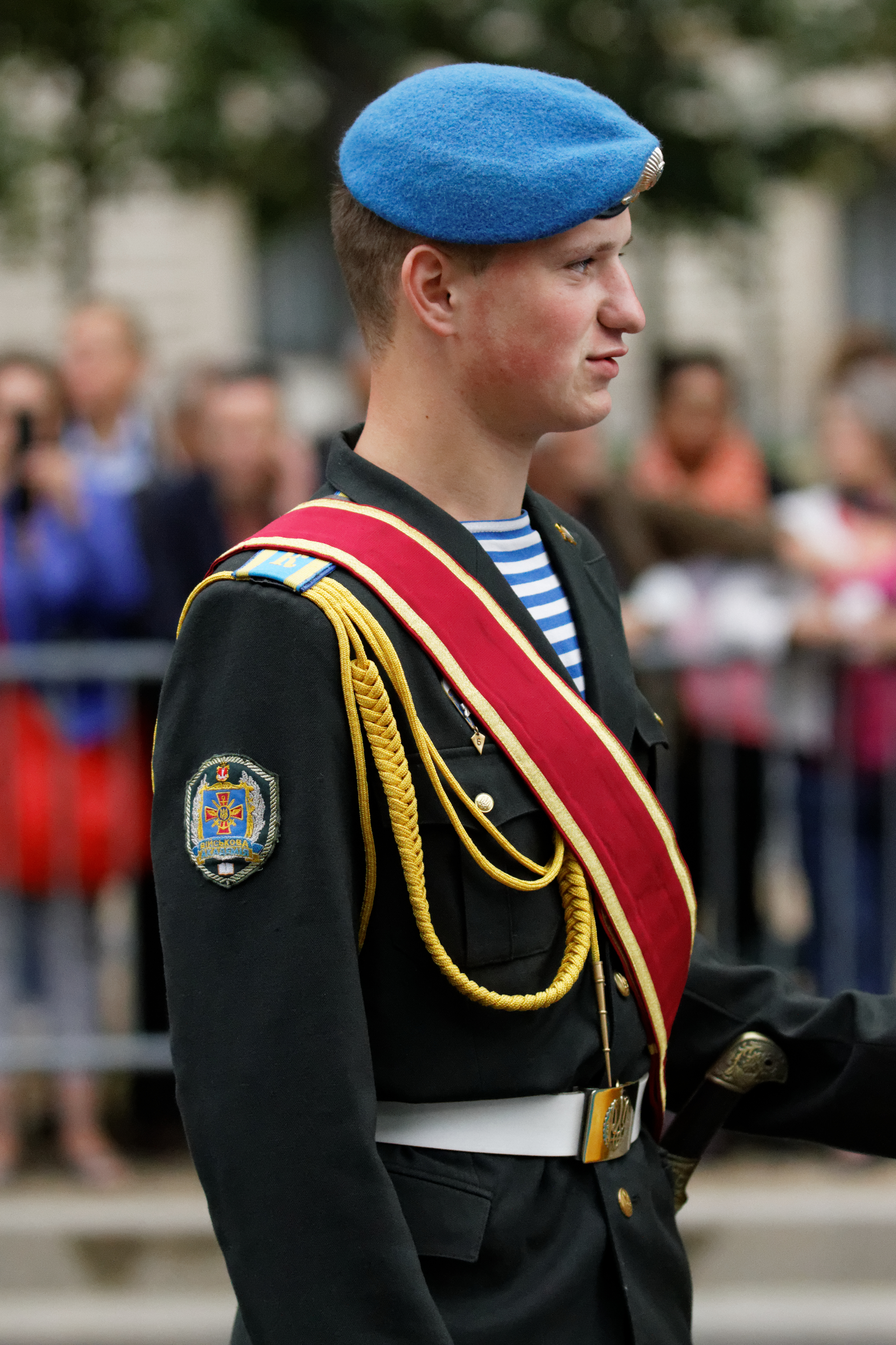 Bastille Day 2014 military parade on the Champs-Élysées in Paris. Color guards.